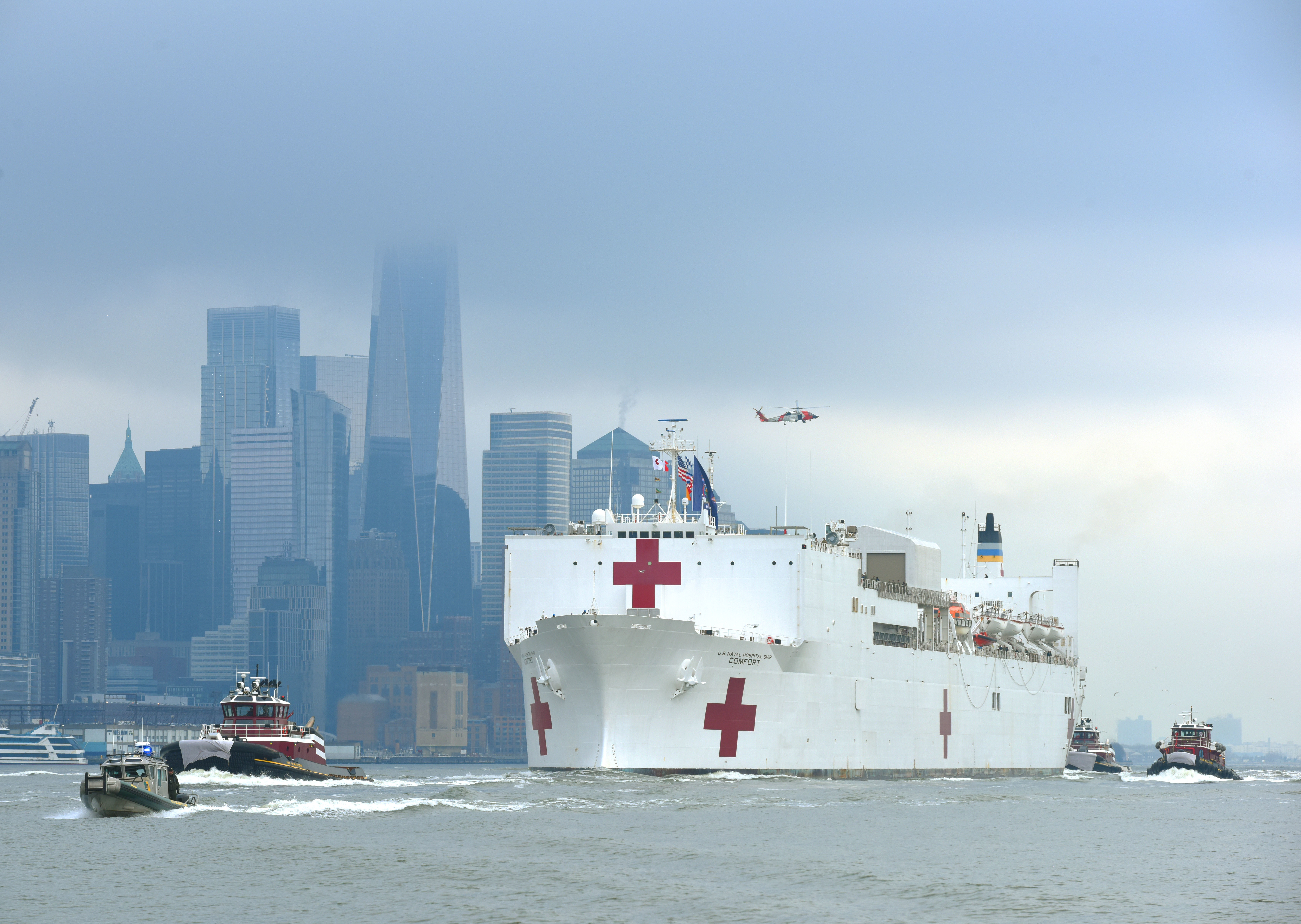 Coast Guard assets, along with New York Police Department and New York Fire Department assets, provide a security escort for the USNS Comfort arrival into New York Harbor, March 30, 2020. Coast Guard Cutter Shrike, Coast Guard Cutter Sitkinak, Maritime Safety and Security Team New York, and crews from Coast Guard Station New York and Coast Guard Air Station Cape Cod conducted the escort as the Comfort arrived in New York City to assist in the COVID-19 response. (U.S. Coast Guard photo by Petty Officer 3rd Class John Q. Hightower)